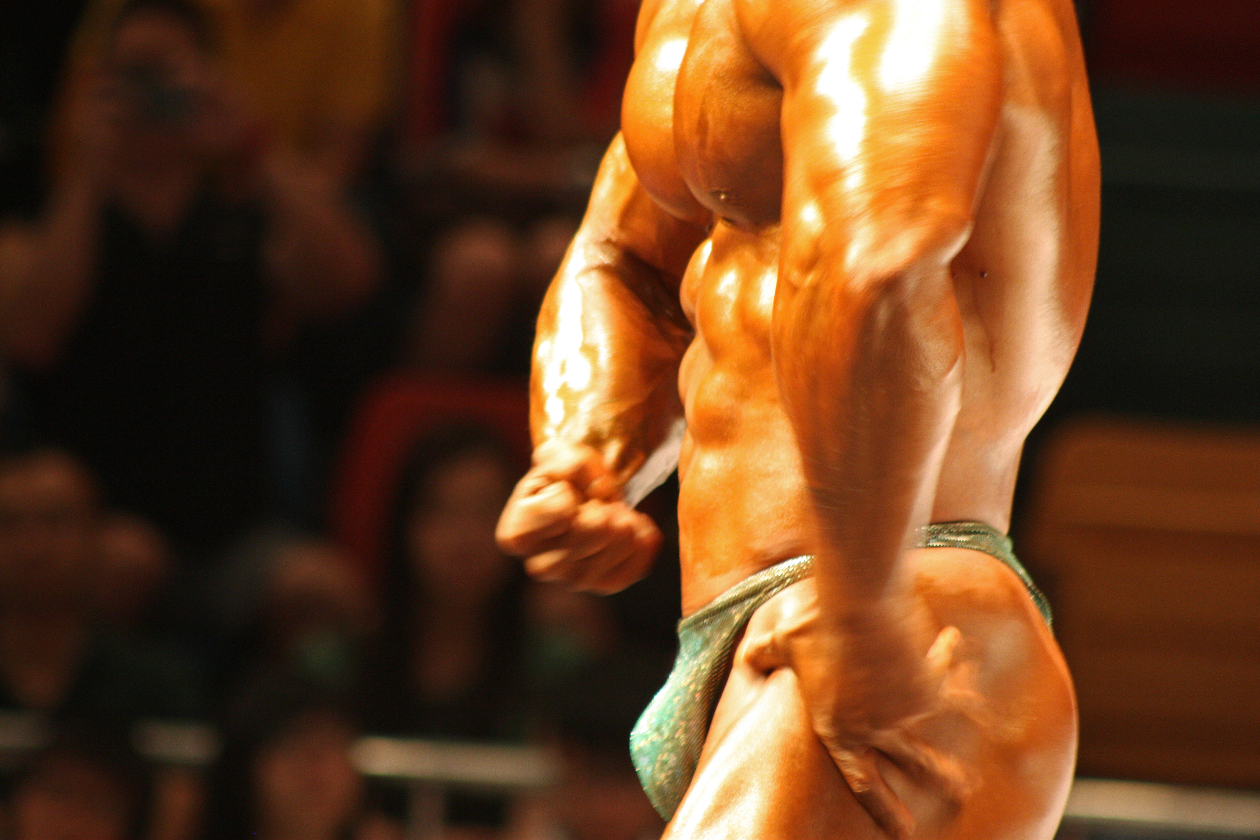 2012 Hong Kong Bodybuilding Championships & 3rd South China Invitational Championships 2012 全港健美錦標賽 暨 華南地區健美邀請賽 I have a ton more pictures from the HK Bodybuilding Campionships, so if you competed, get in touch with me as I may have taken your picture.